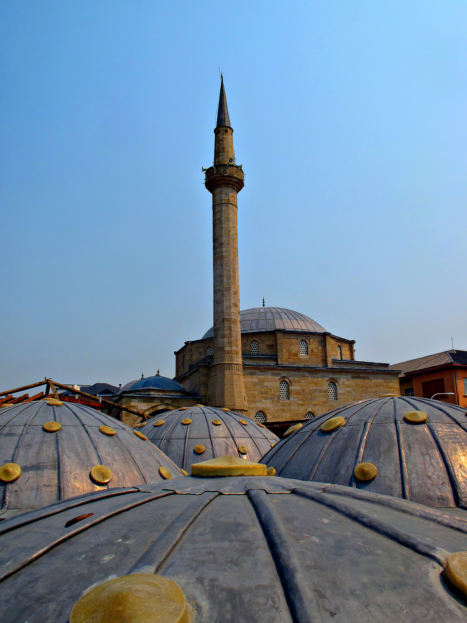 Mosque in Prishtina, Kosovo.